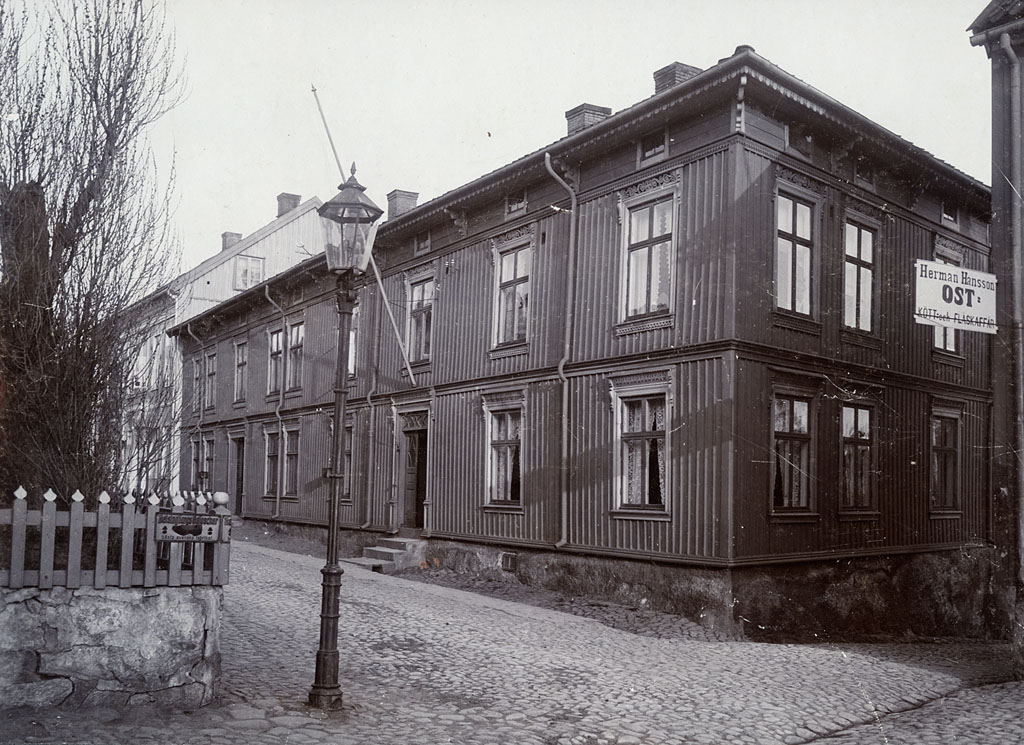 Strömstad. Childhood home of Swedish author Emilie Flygare-Carlén.